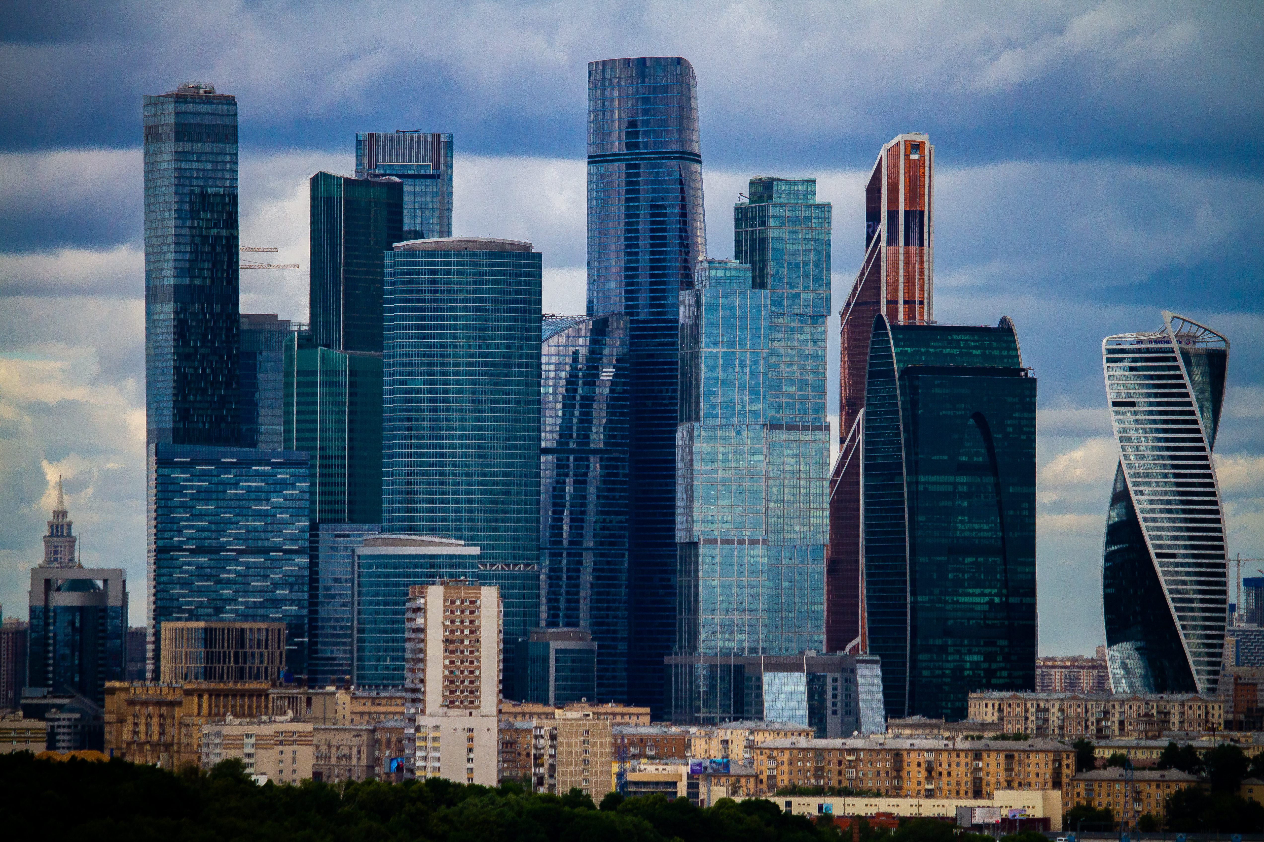 Picture of Moscow City Business District taken from Sparrow Hills, 2019